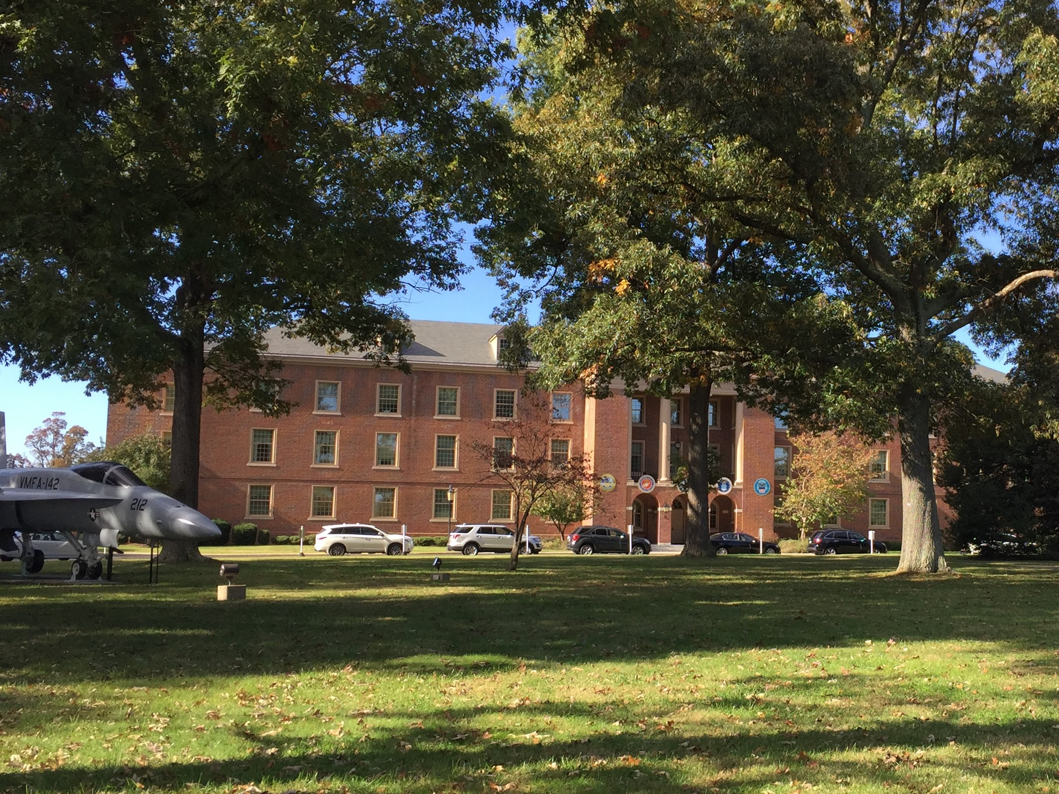 Headquarters of the Defense Supply Center, in Bellwood Virginia